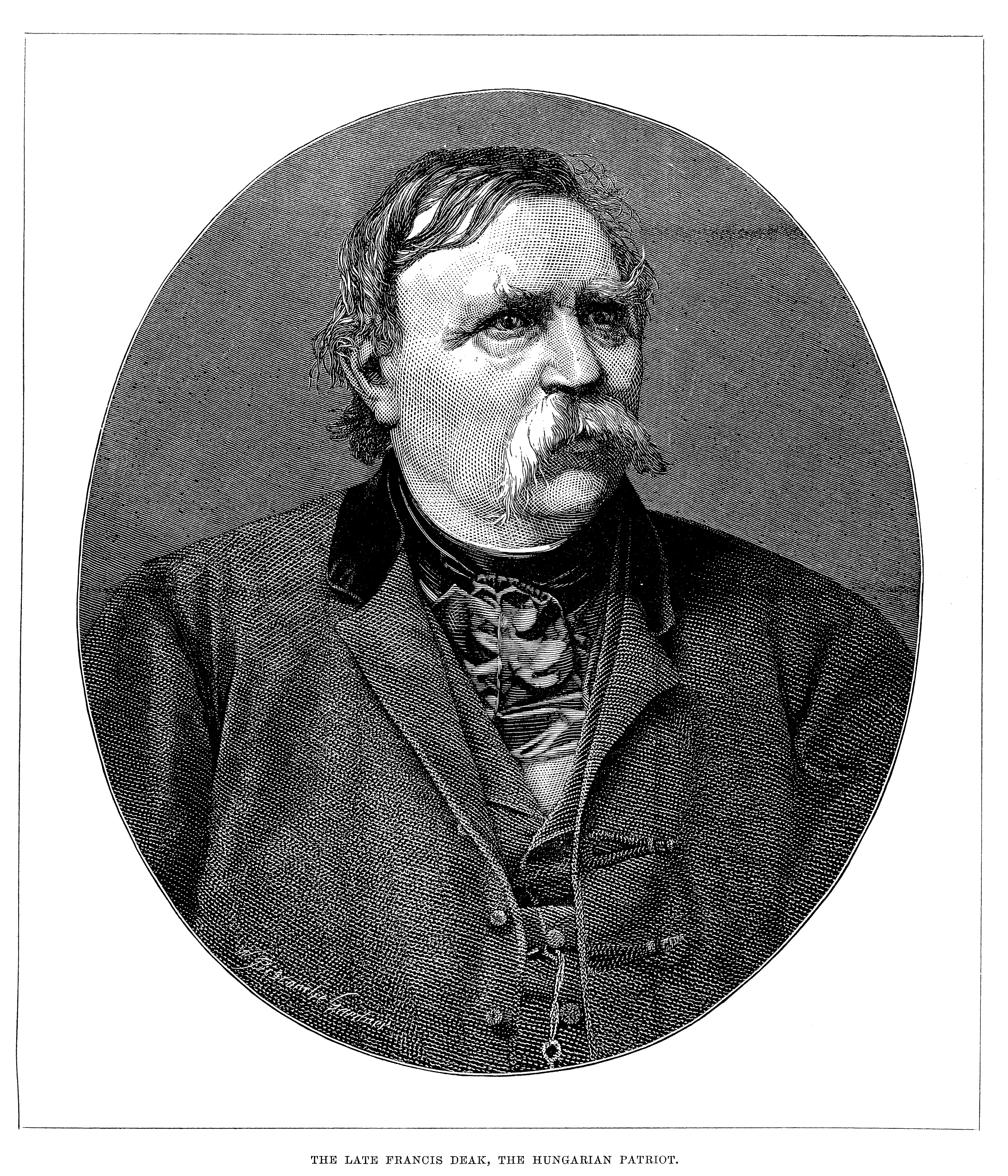 Ferenc Deák (anglicised as Francis Deak) from his obituary in the Illustrated London News. Text of the obituary follows.